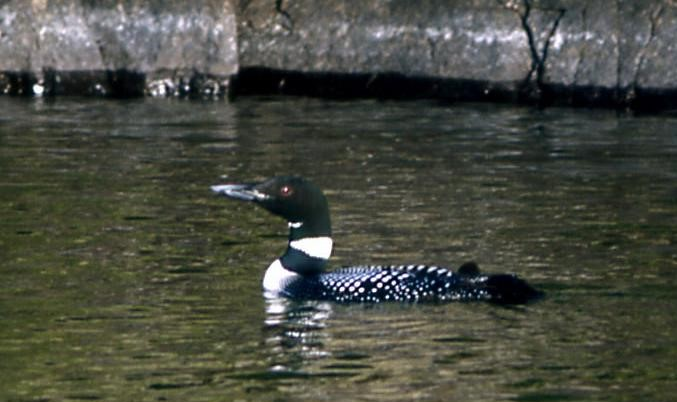 Common loon in Yellowstone National Park